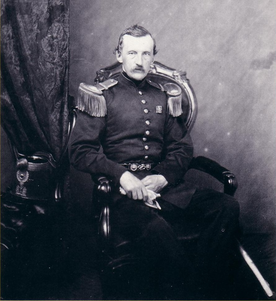 Anthonius Franciscus Bauduin